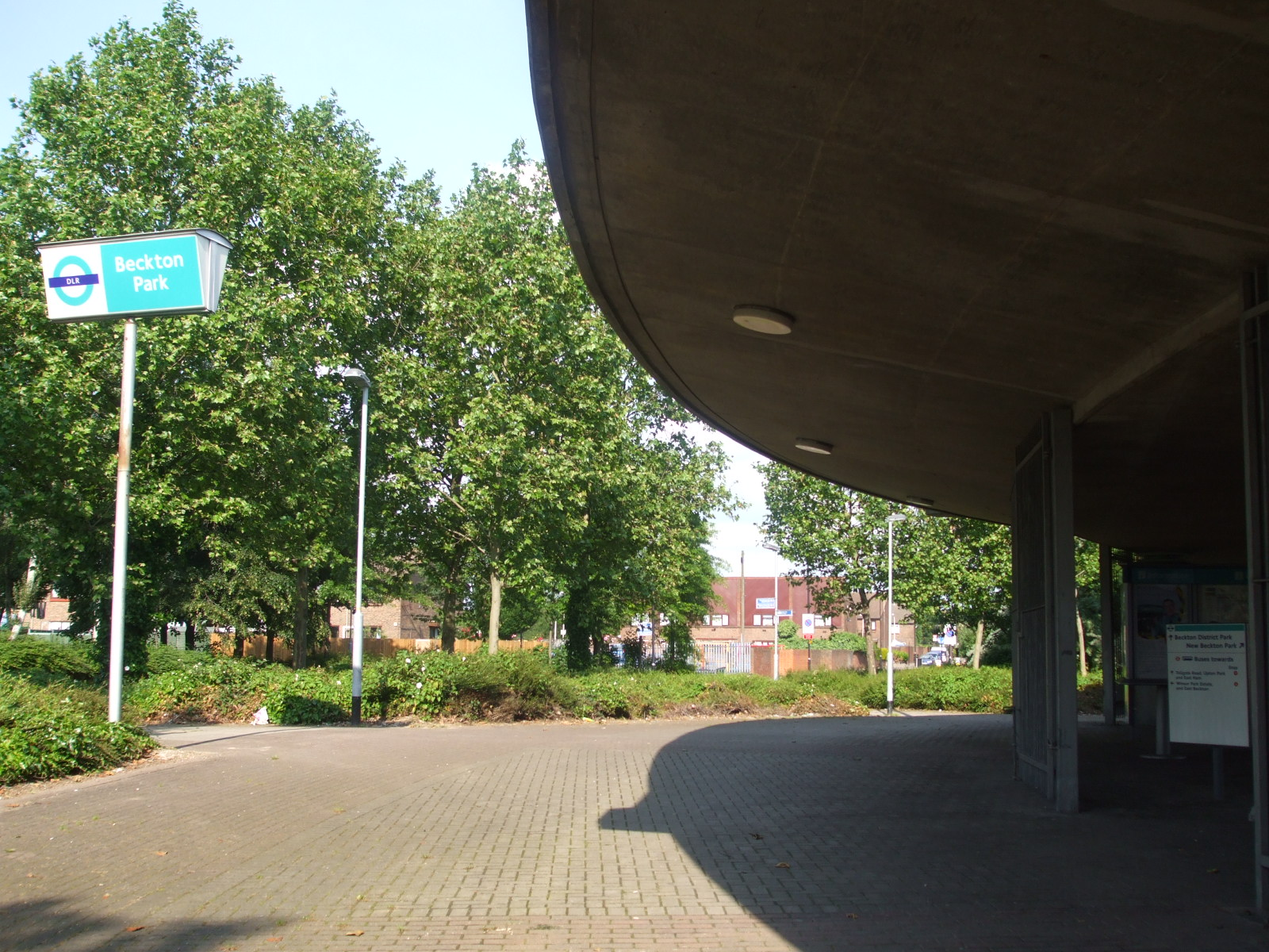 Beckton Park DLR station entrance signage.